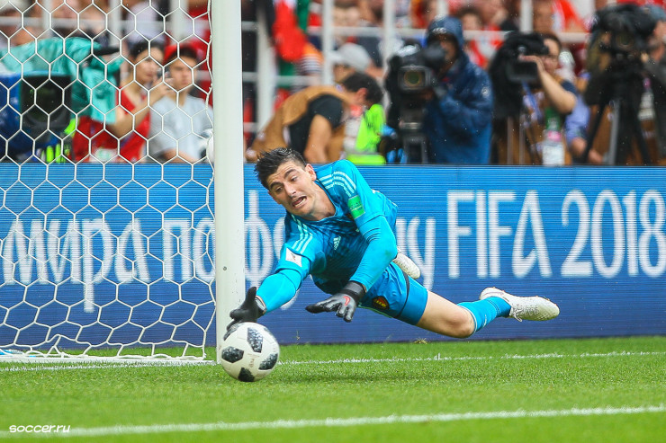 Thibaut Courtois Russia 2018